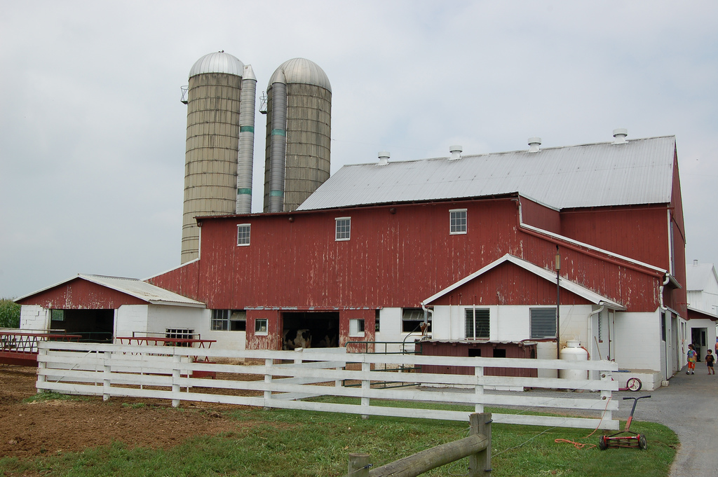 A Farm in Amish Country, original comment: "This is a typical farm found in Amish Country PA."